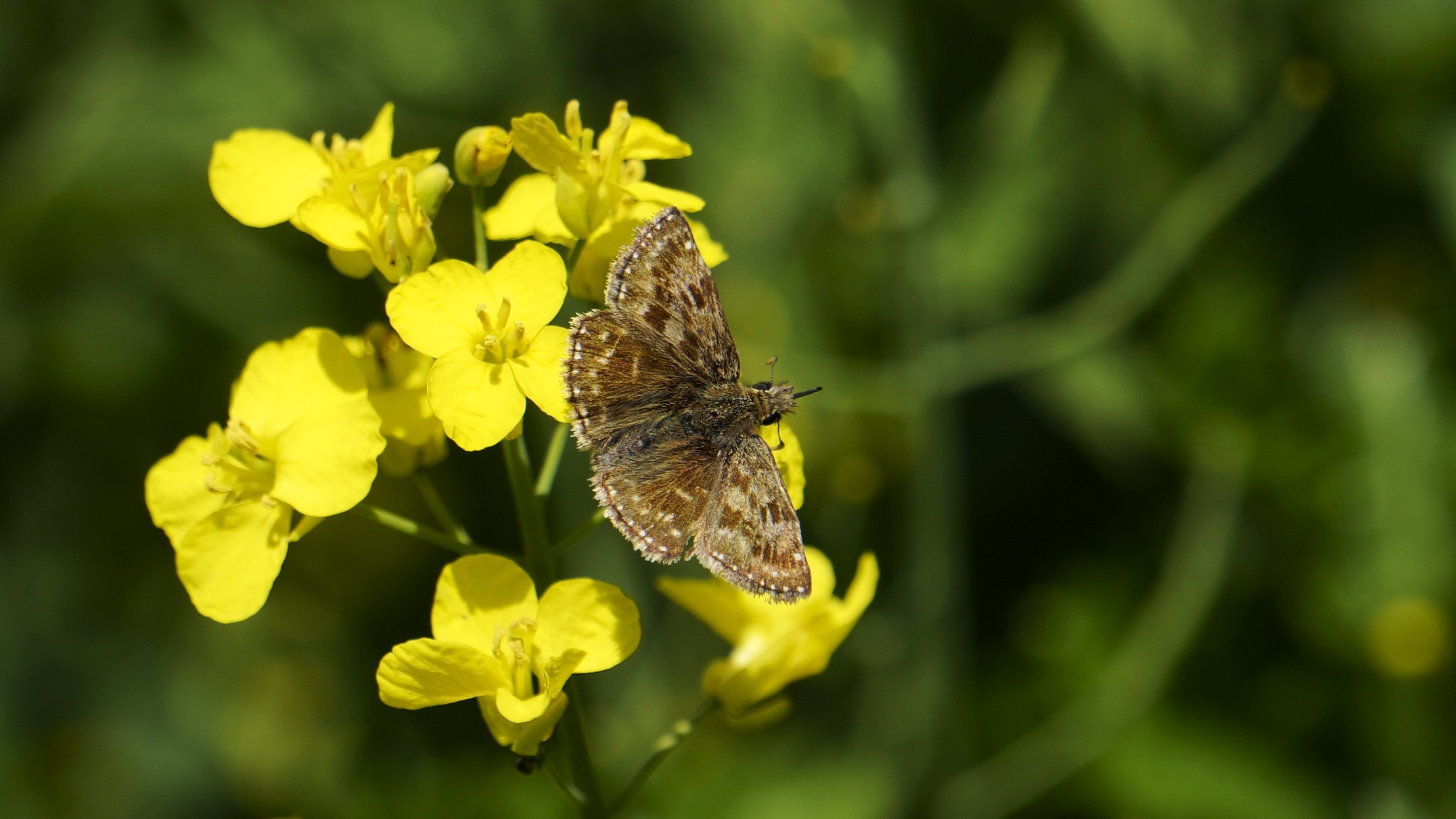 These lively skippers were also abundant and chased off any other butterfly that came within range.